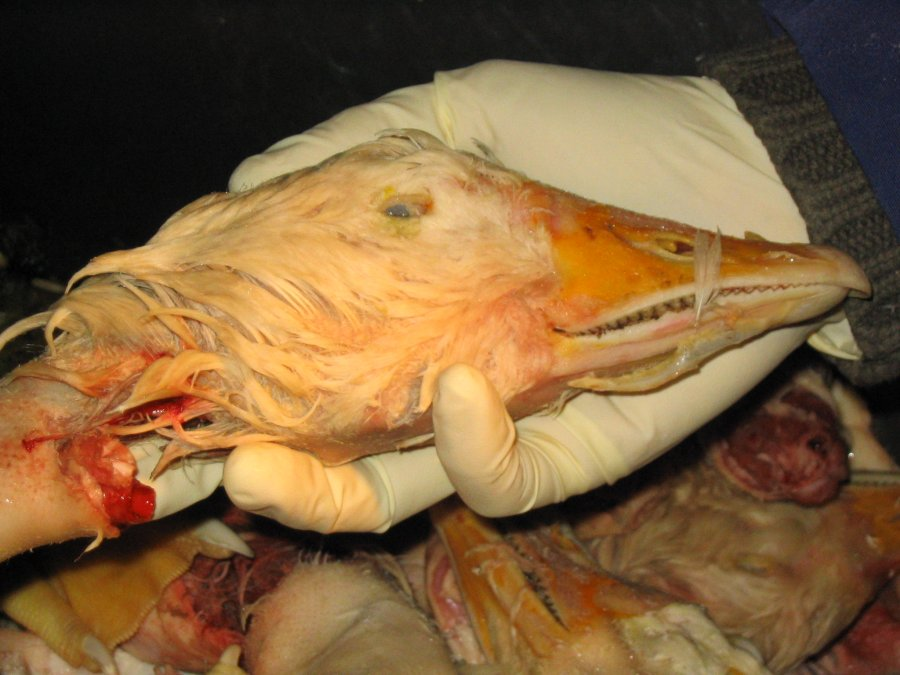 Head of a dead goose from a dustbin